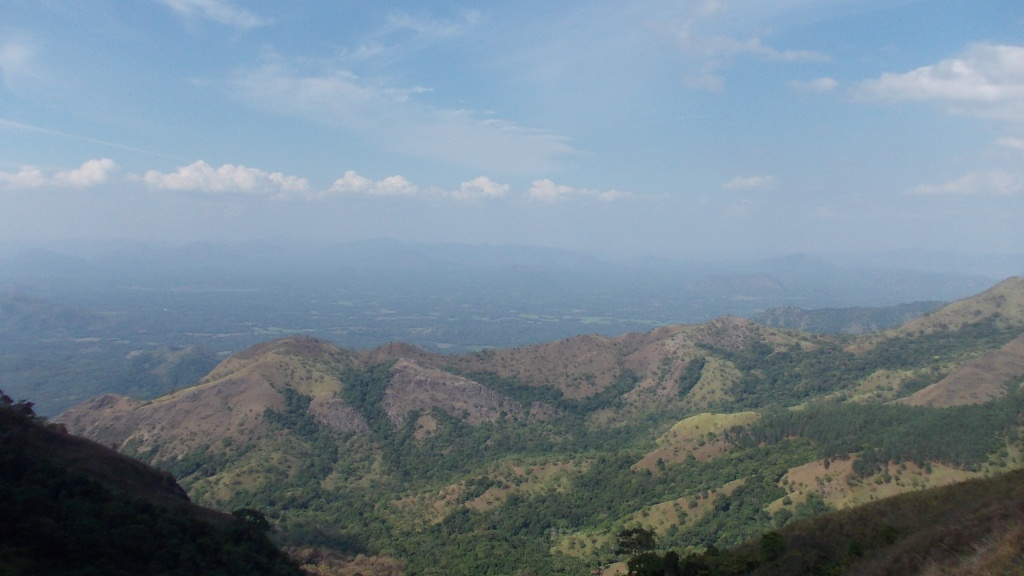 Madolsima Interactive view